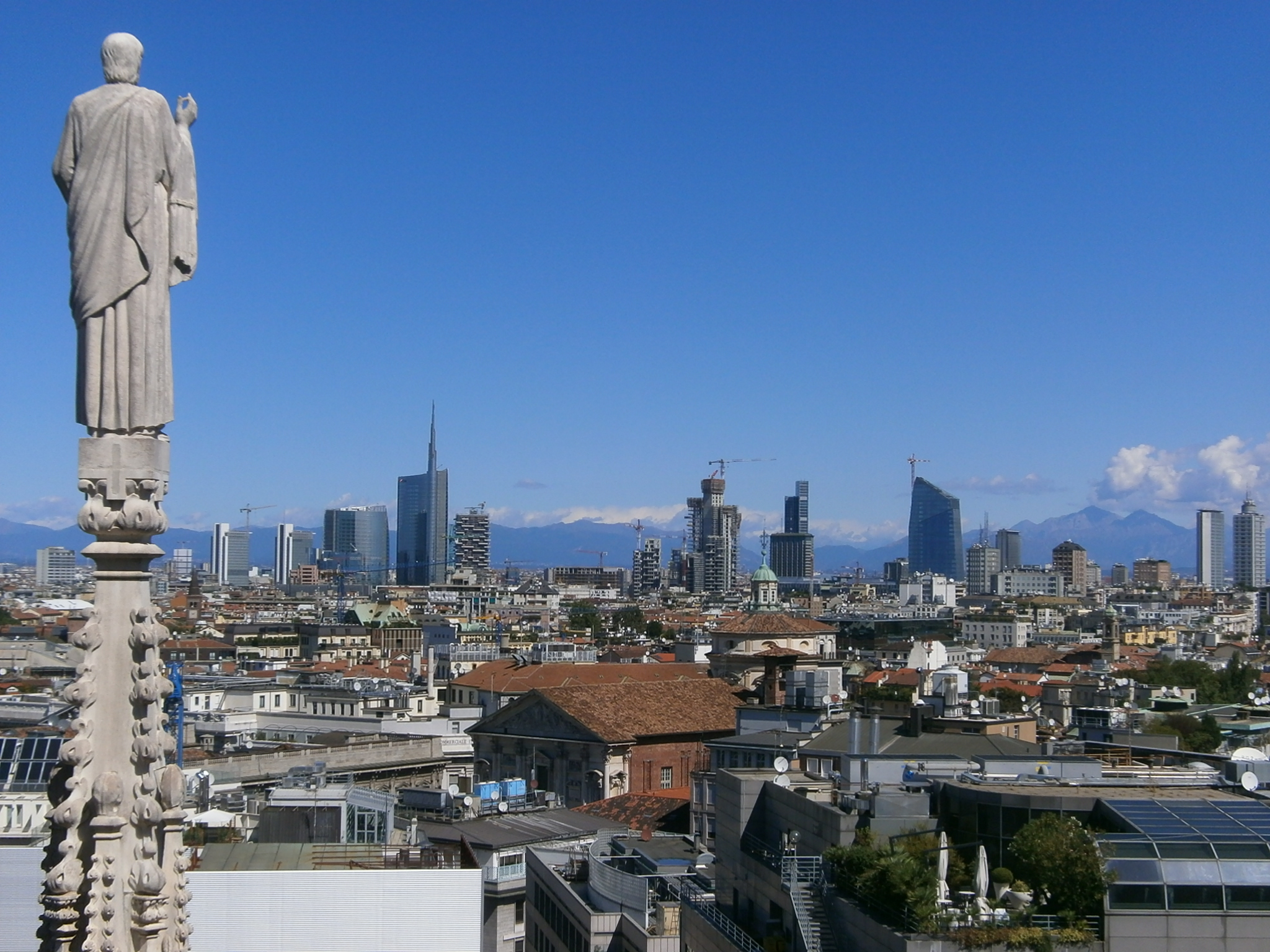 The skyline of Milan from the roof of Duomo cathedral, in the background are visible the pre-Alps, expecially the Grigna on the right. On the left a statue on a Duomo's spire. I think that the concept of de minimis non curat praetor is applicable on this photo for the buildings in the back.